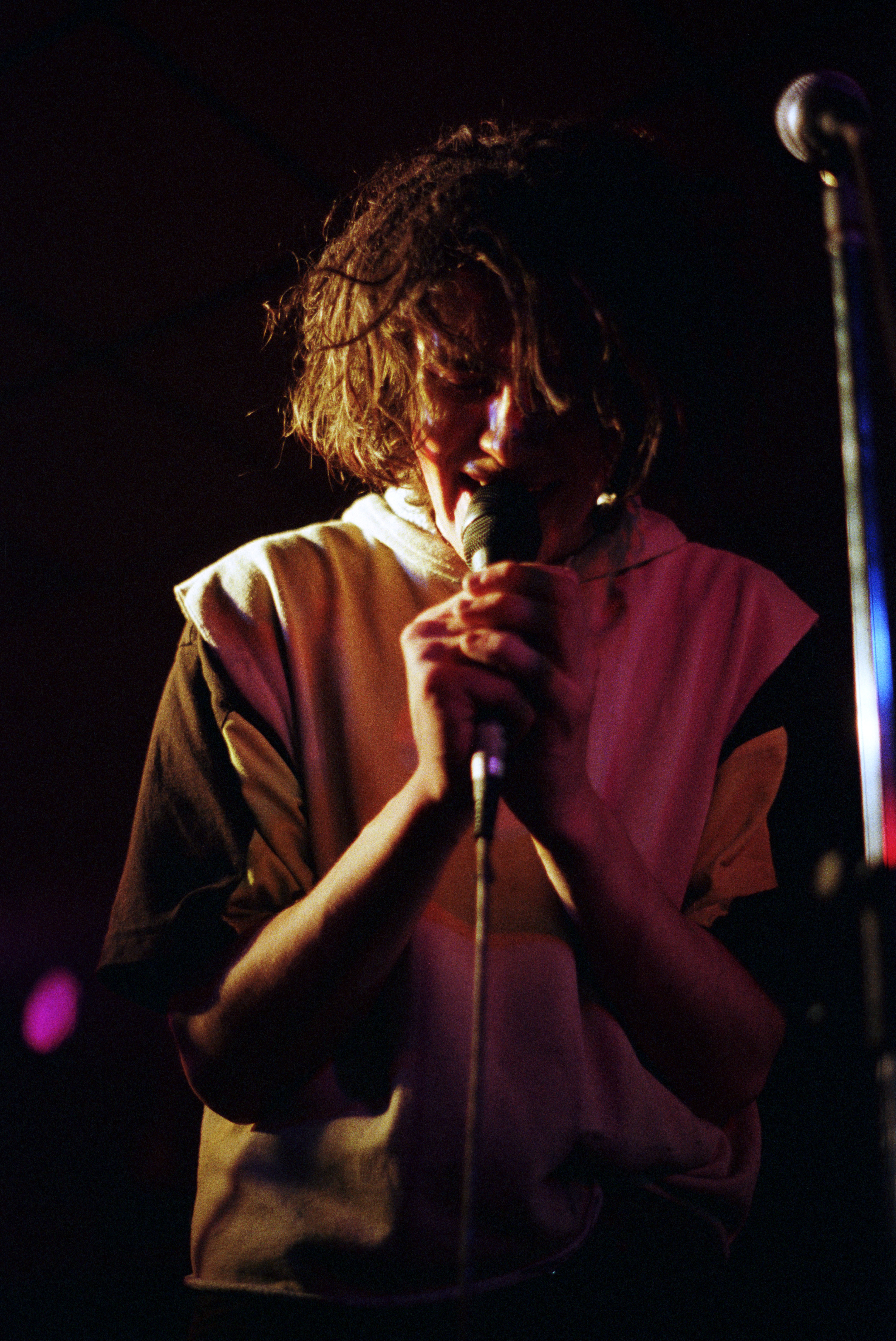 Gruff Rhys, Ffa Coffi Pawb . Roc Ystwyth 1989. Image by Medwyn Jones.